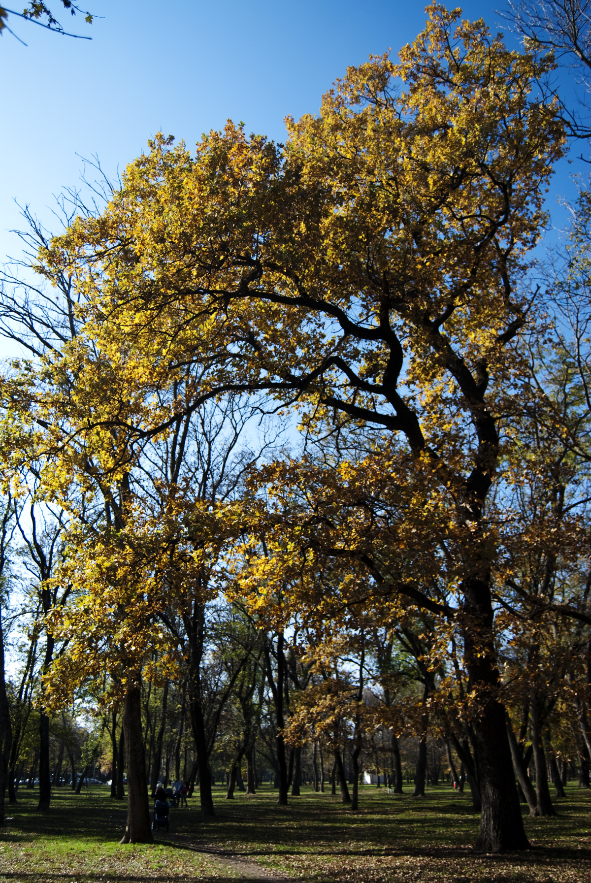 Park Chistyakovskaya Rosha in Krasnodar (Russia)